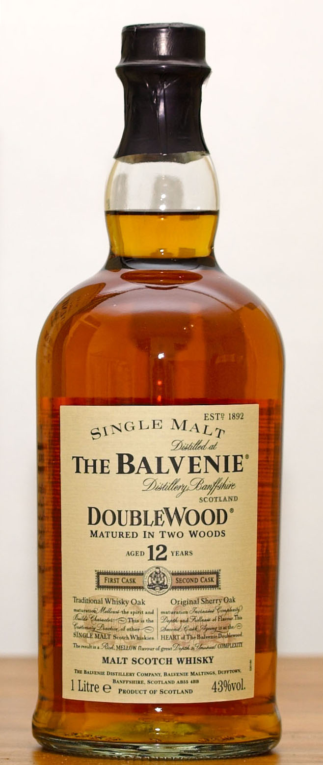 Balvenie DoubleWood, 12 years old Scottish Single Malt Whisky.